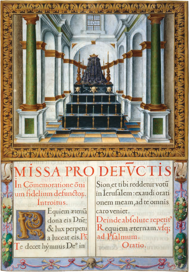 Catafalque, illumination by unknown author dated to the second quarter of the 17th century, of the Missal of the Academy of Sciences, Lisbon, Portugal.